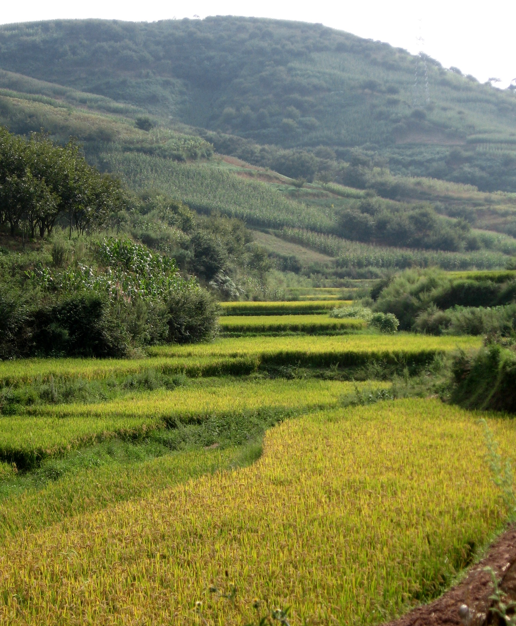 Level, bunded rice paddies in the valley bottoms contrasted with erosion-vulnerable unterraced upland cropping on the hills. Location: near Kunming, Yunnan Province, PRC.